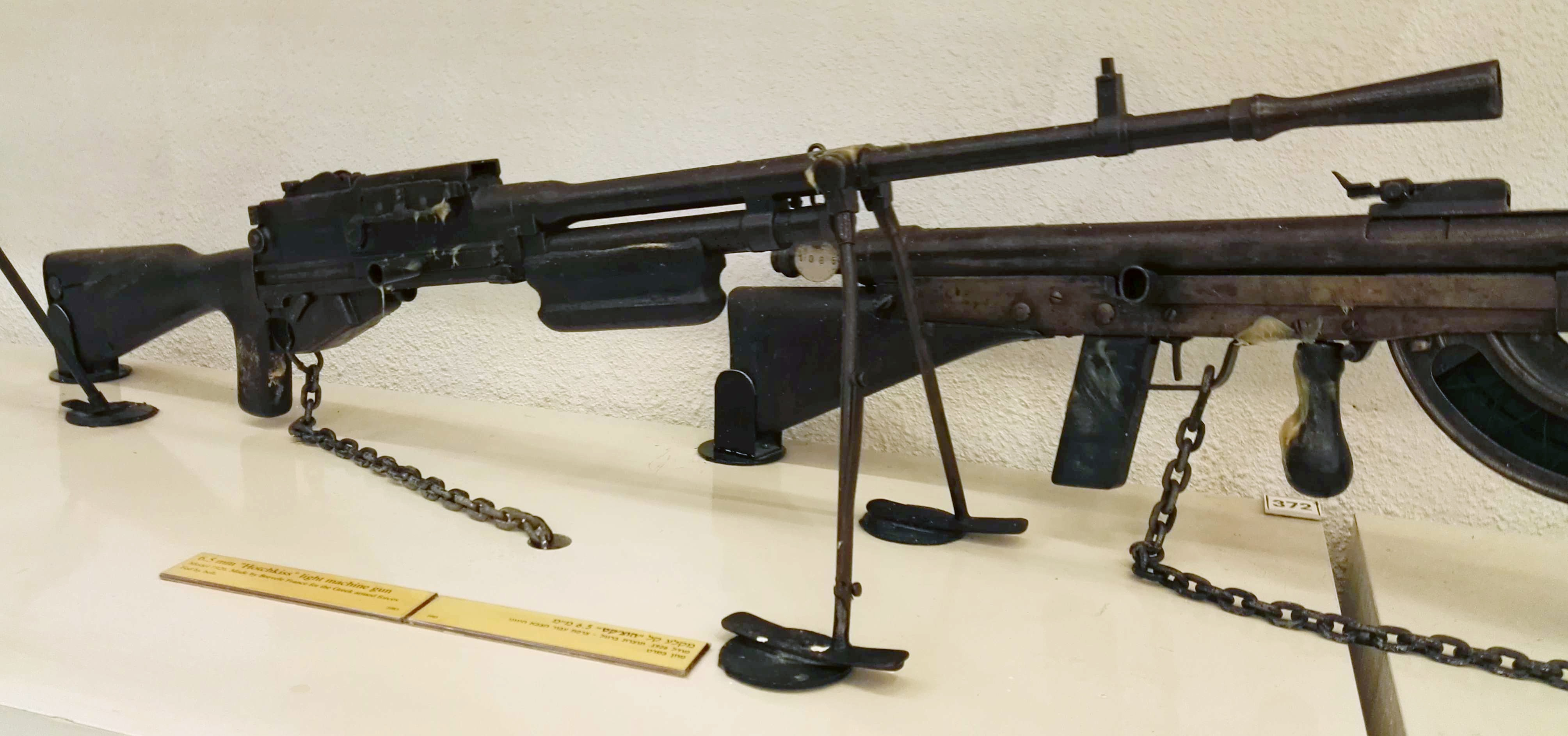 Batey ha-Osef Museum, Tel Aviv, Israel.